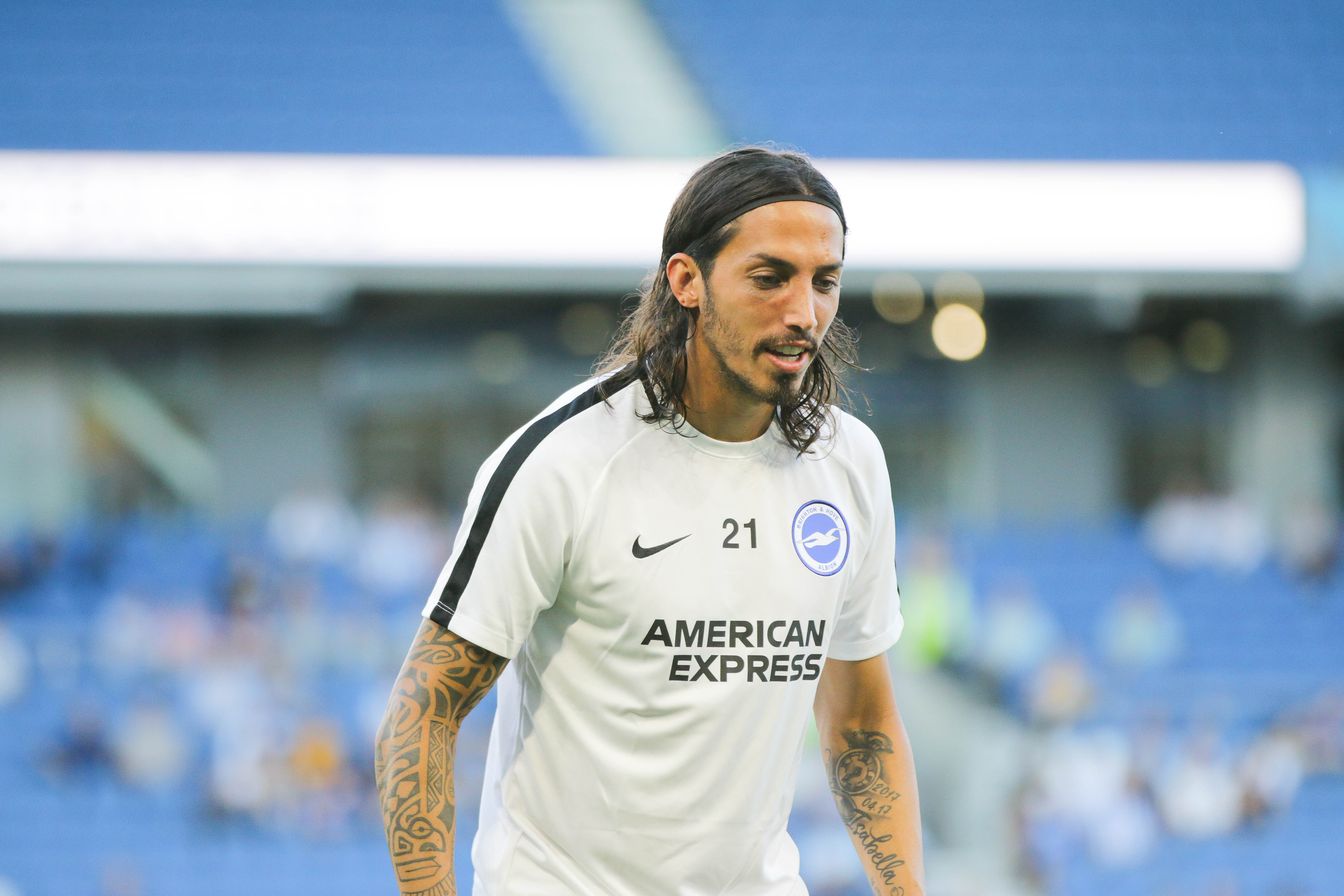 BHA v FC Nantes pre season 03 08 2018-25.jpg